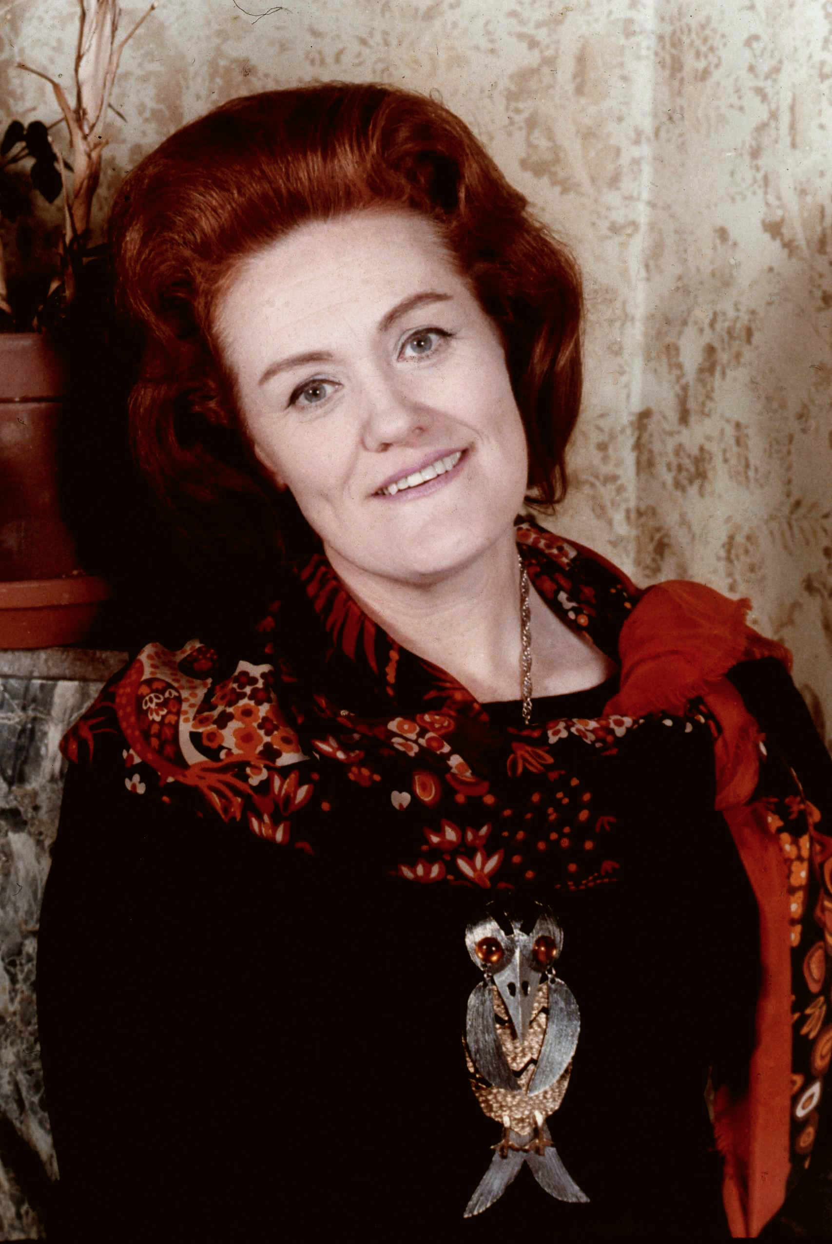 Portrait of Dame Joan Sutherland, taken in New York